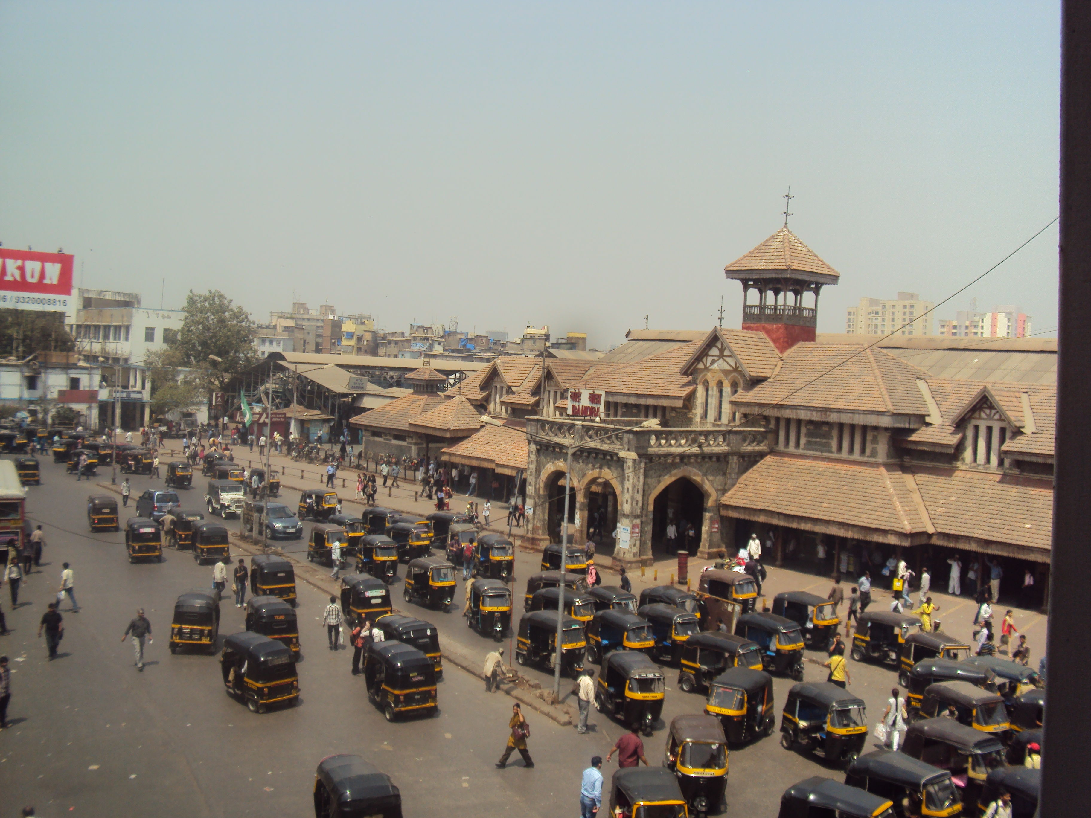 Bandra railway station, 2012